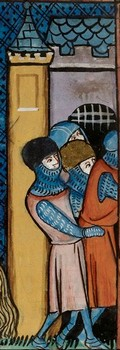 Geoffrey III, Count of Anjou a prisoner